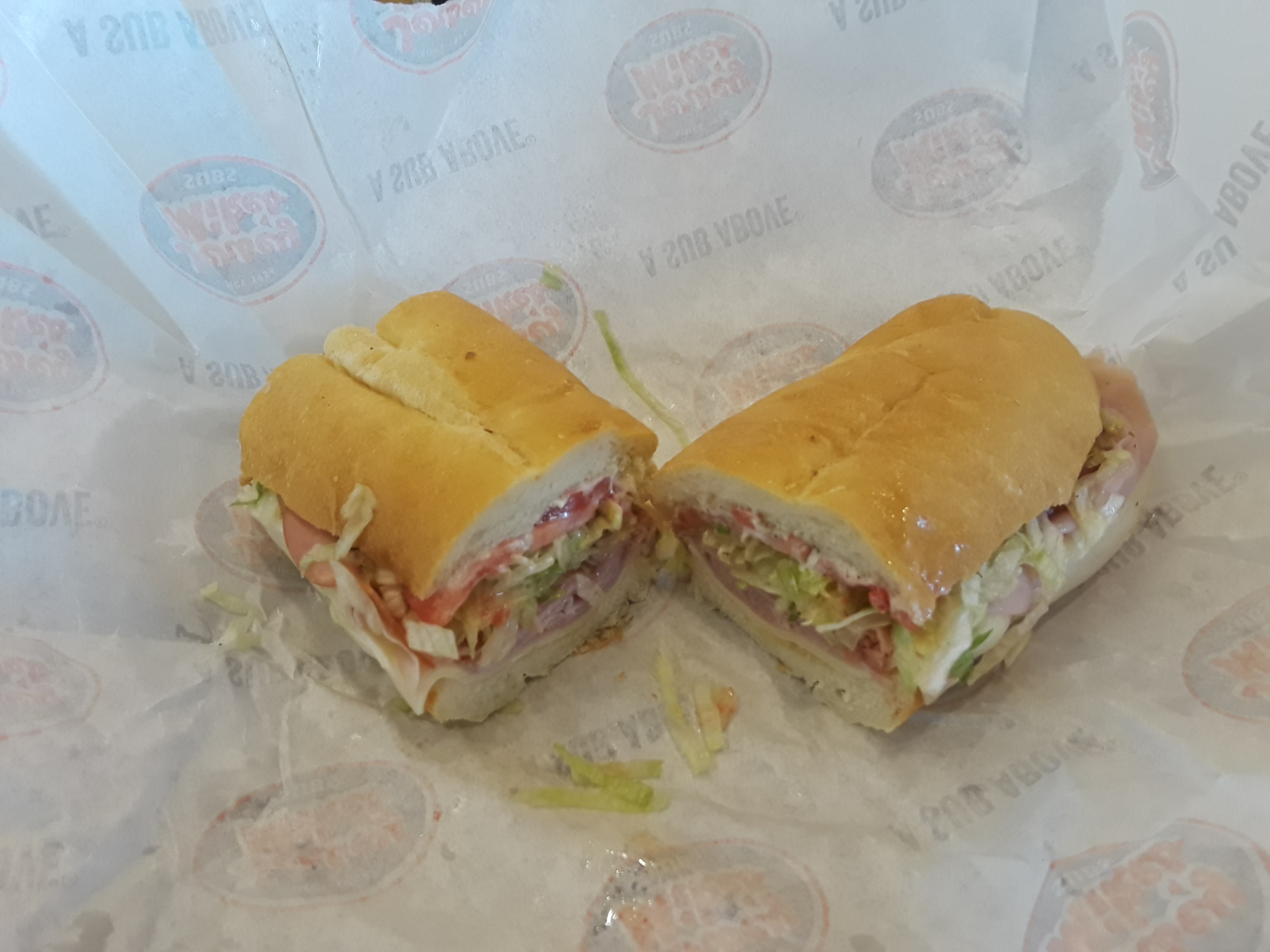 Jersey Mike's, Brookfield Plaza, Springfield, Virginia